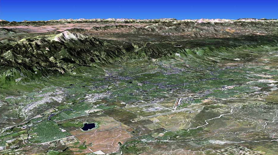 The raw satellite imagery shown in these images was obtain from NASA and/or the US Geological Survey. Post-processing and production by